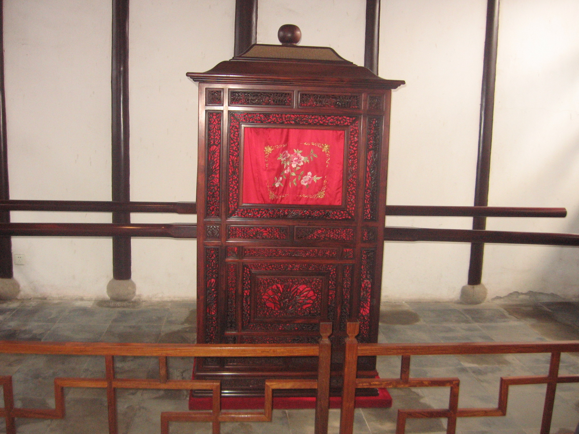 Folk Chinese bridal sedan, a folk art in China. This photo has been taken in the country: China